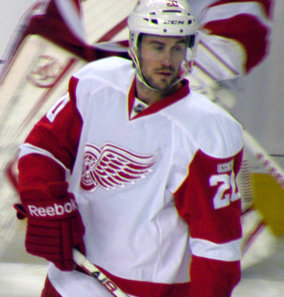 Detroit Red Wings forward Drew Miller prior to a National Hockey League game against the Calgary Flames.